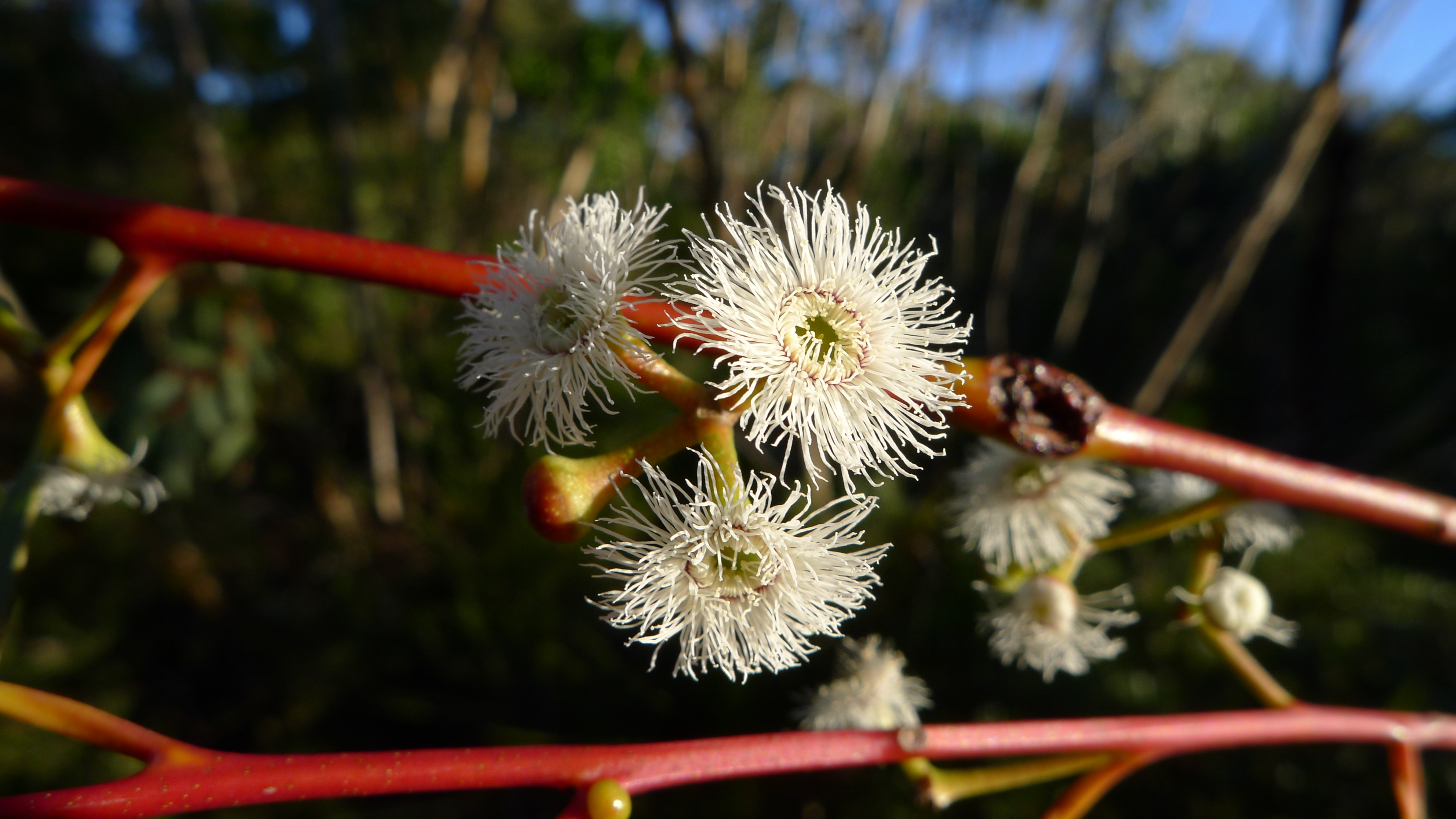 Whipstick Ash, Eucalyptus multicaulis, grows as a small mallee. Heathcote National Park, NSW Australia, July 2011.